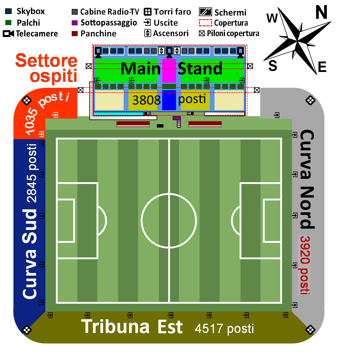 Benito Stirpe Stadium (Frosinone, Italy)